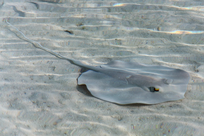 Scaletail stingray (Himantura imbricata) in the Maldives